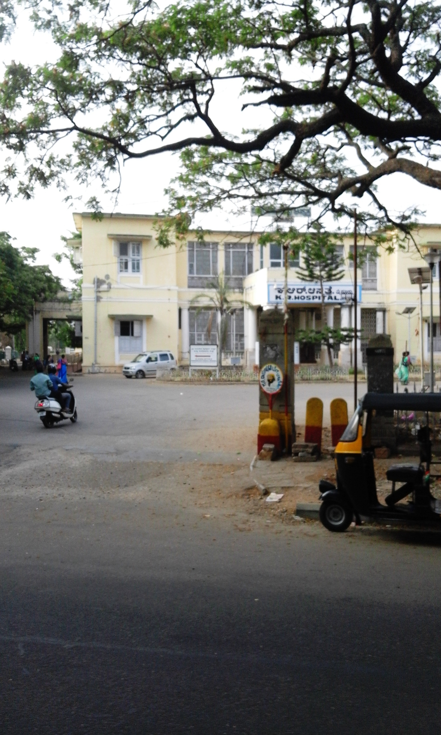 Mysore city, Karnataka state, India.